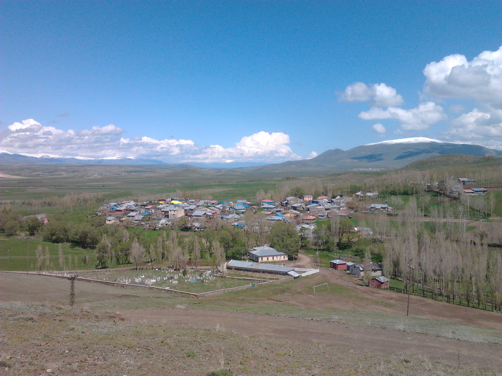 Abdalcık bahar görünümü